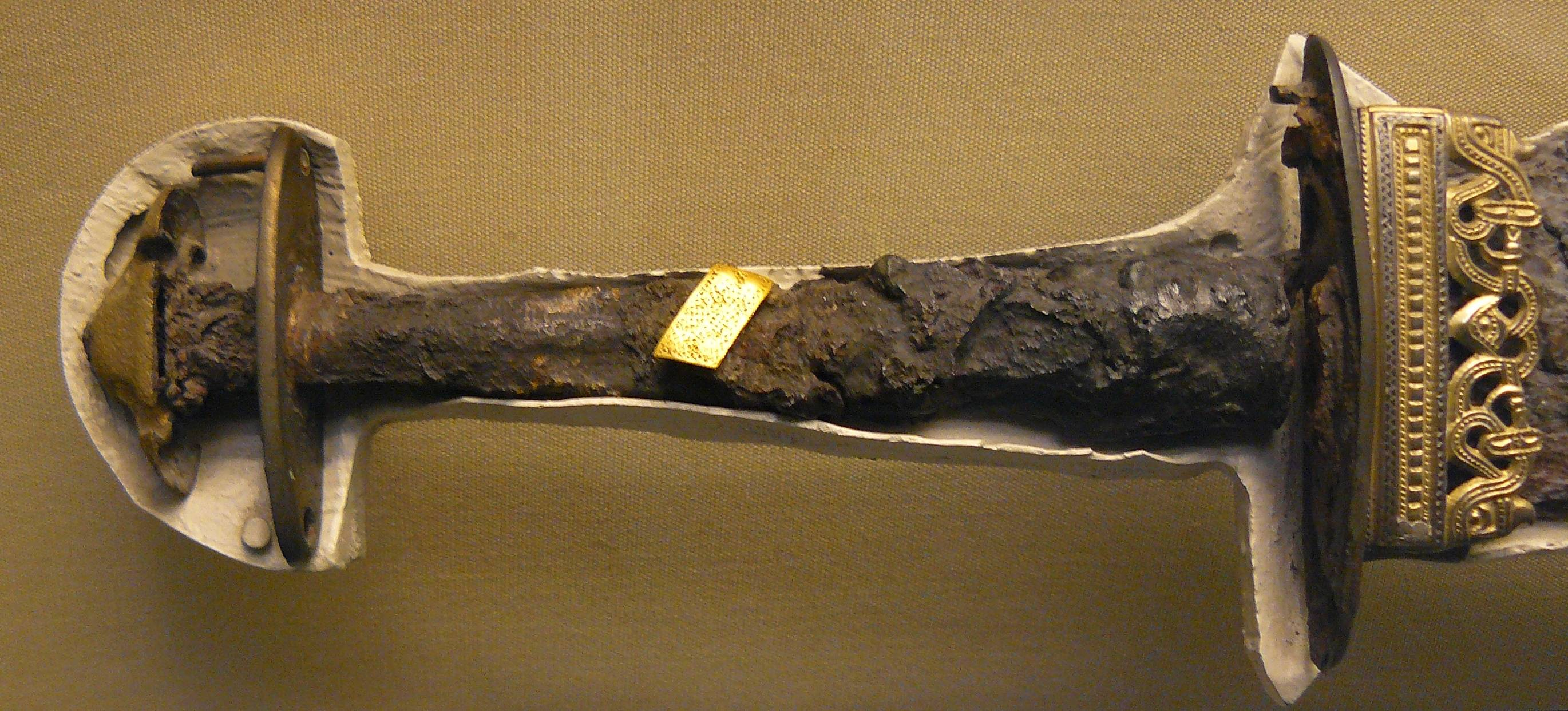 Anglosaxon sword and scabbard mount (6th century) from Grave 76 at the cemetery of Chessel Down (Isle of Wight). British Museum in London.